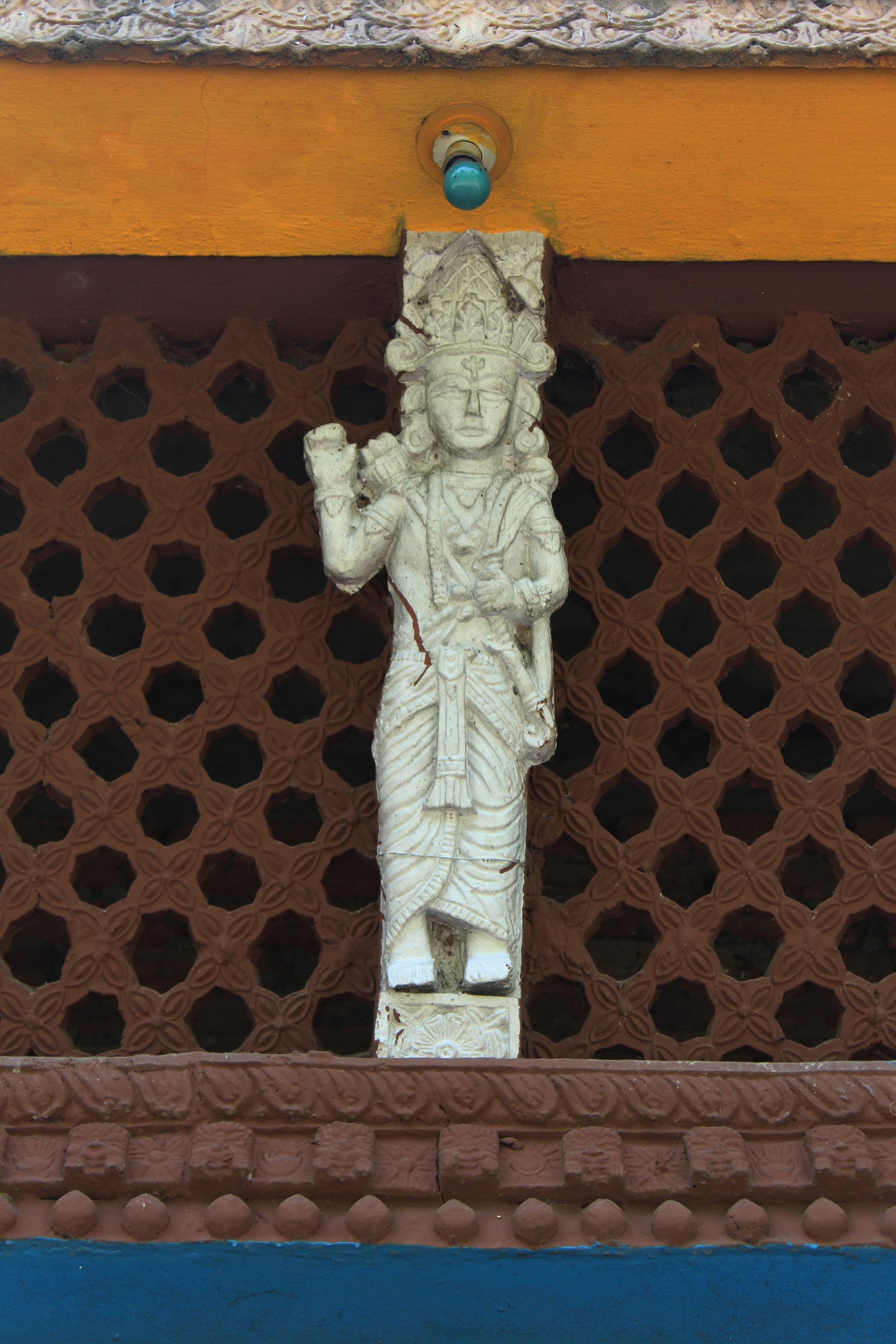 Lord Krishna inside Kankalini Temple, one of the famous temples of Nepal, is located in the village Bhardaha that lay on the either sides of the Mahendra Highway in Saptari district. The five storied temple is located at the side of Mahendra Highway and is easily spotted. One can reach there by a bus with 17 km ride towards north – east from Rajbiraj or 5 km west of Koshi Bridge. The temple is a shrine of one of the powerful forms of the Hindu goddess of Durga whom people worship with full of devotion and faith.